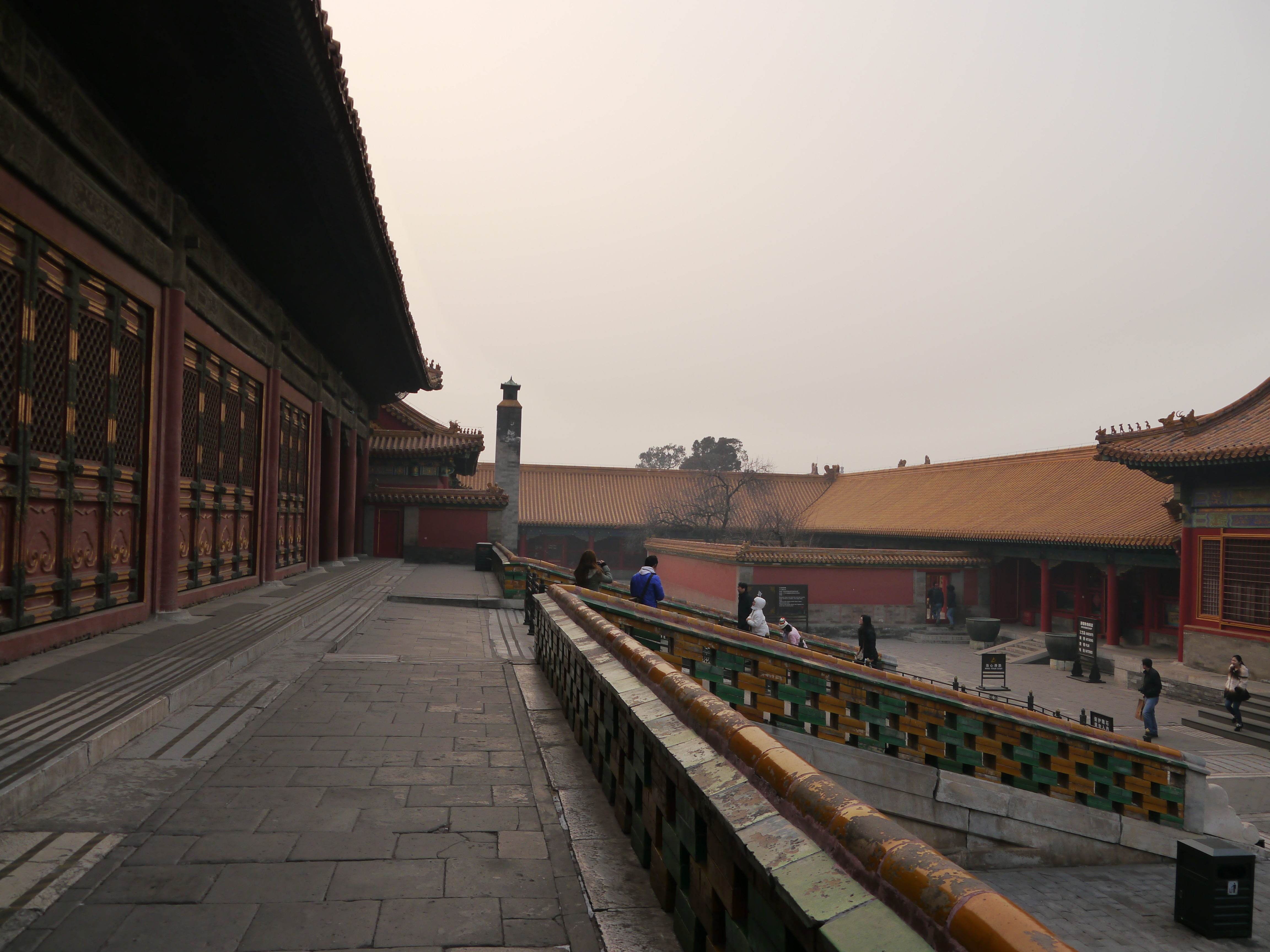 China, Beijing, Forbidden City.